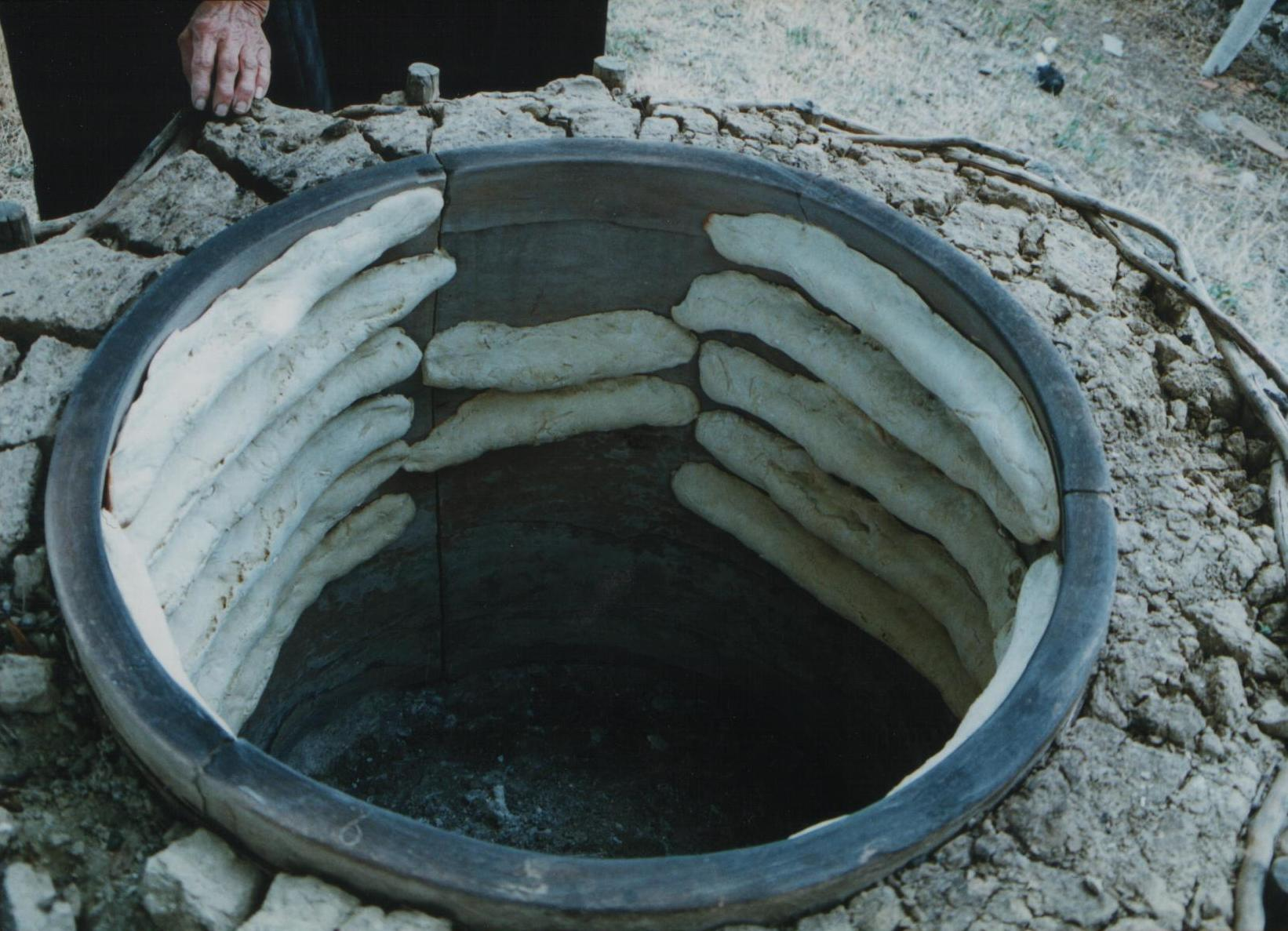 Making bread in Georgia